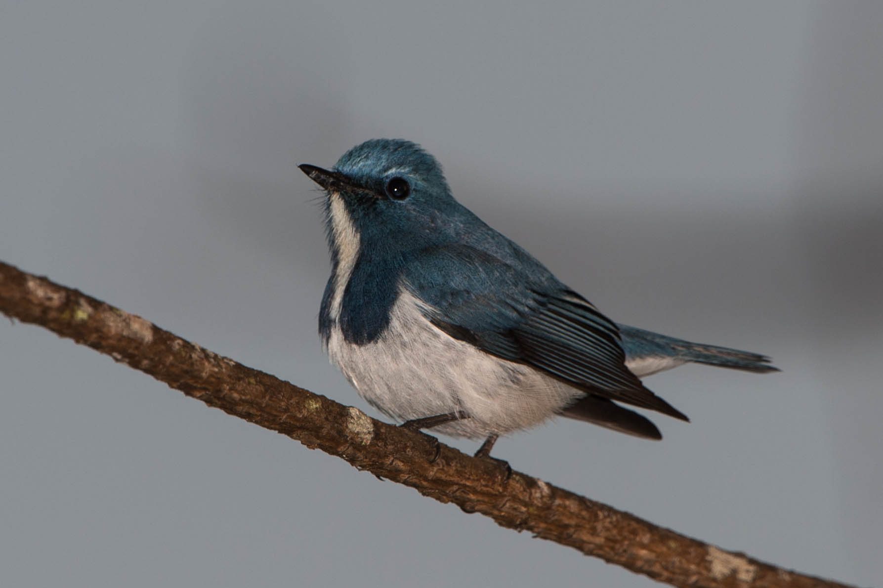 23 December 2013 - Doi Lang, Chiang Mai, Thailand